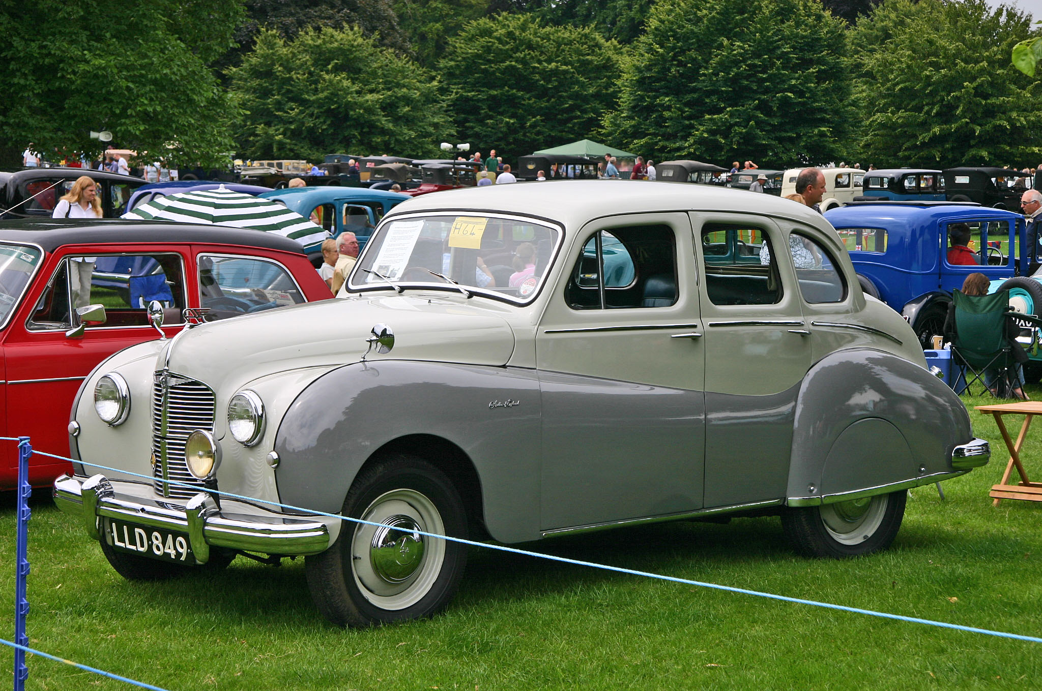 Austin A70 Hampshire produced 1948-50, big brother to the similarly styled A40 Devon